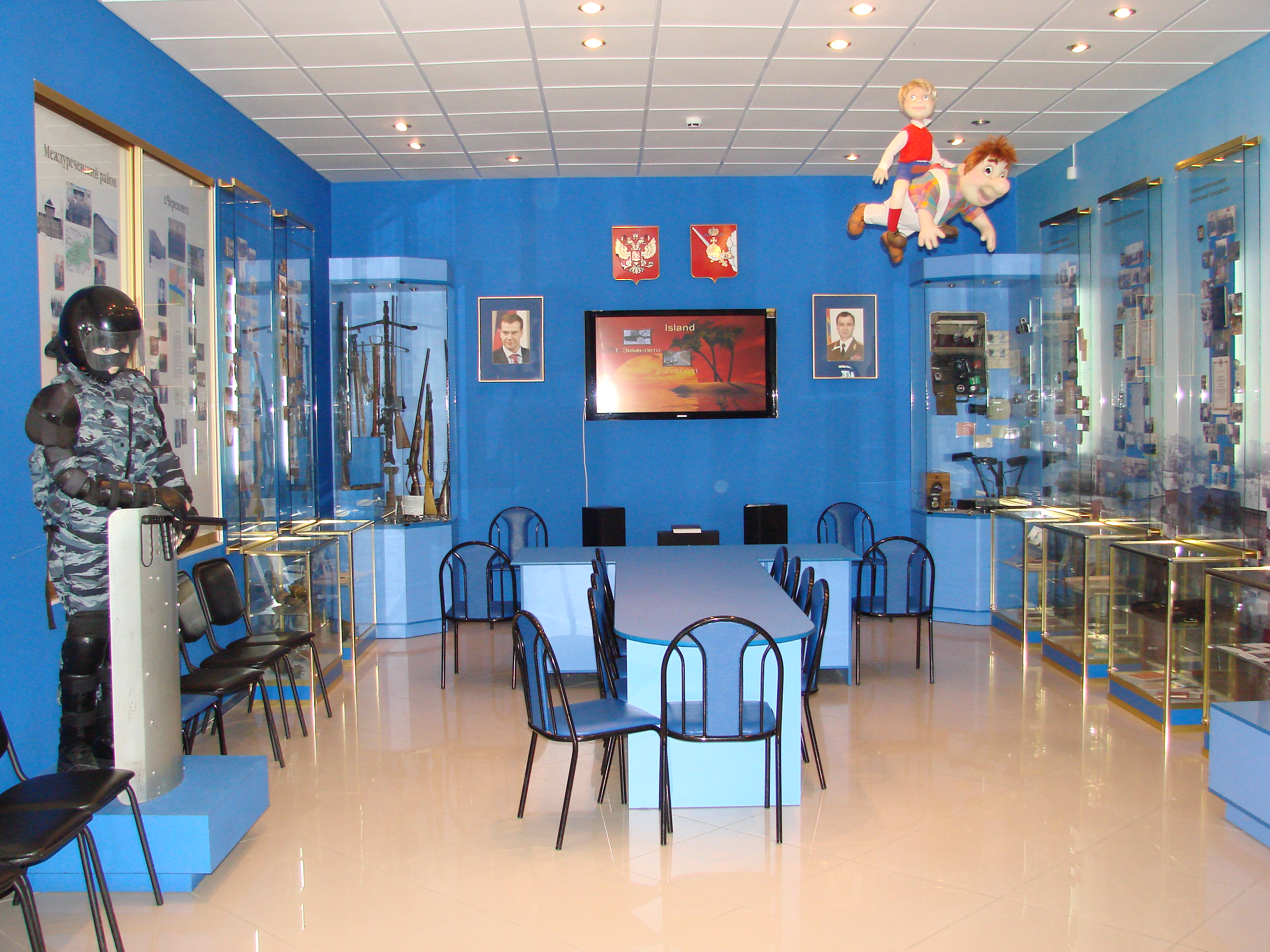 Russia, Vologda, militsiya museum